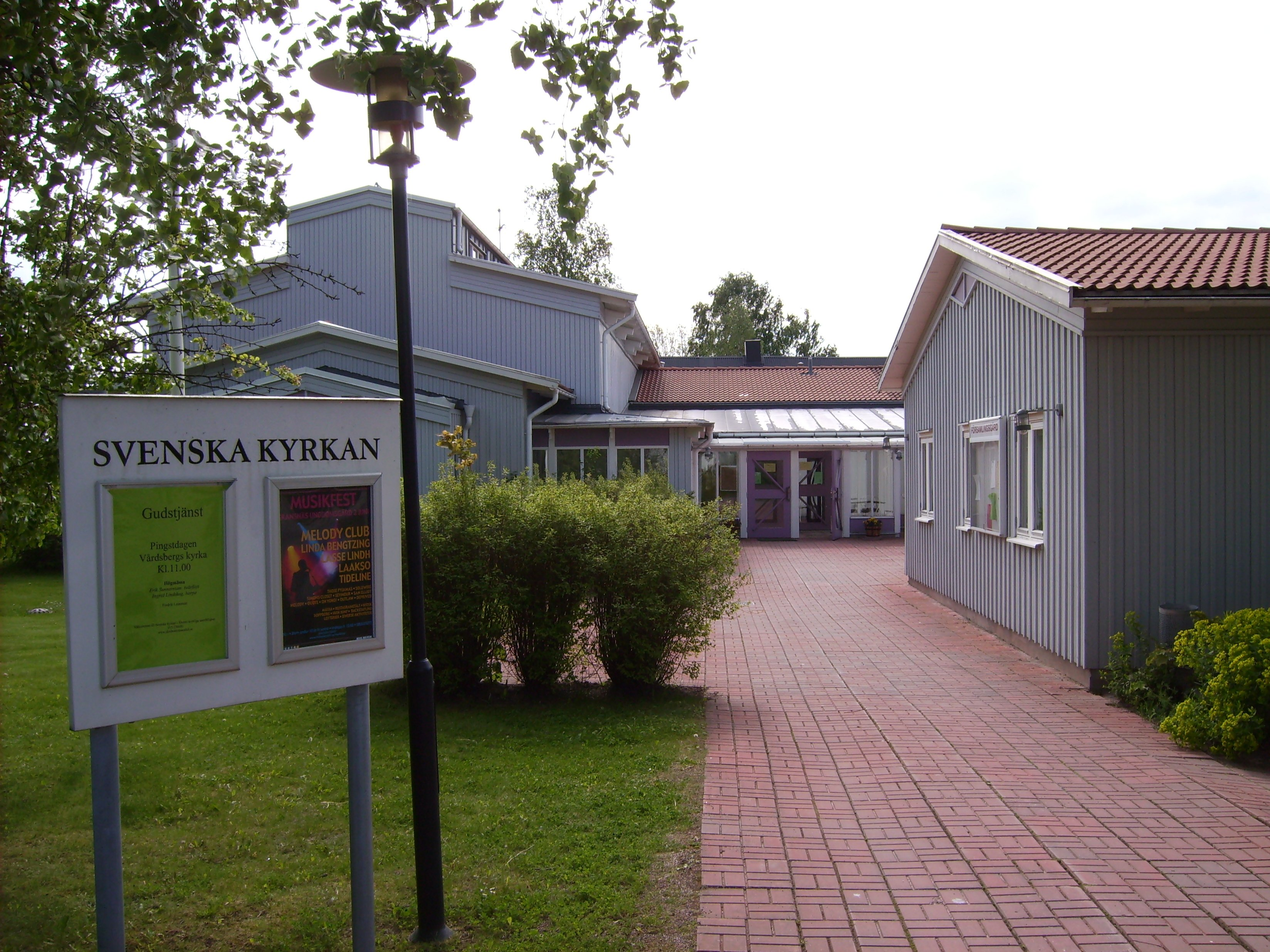 The urban district Linghem with around 2500 inhabitants